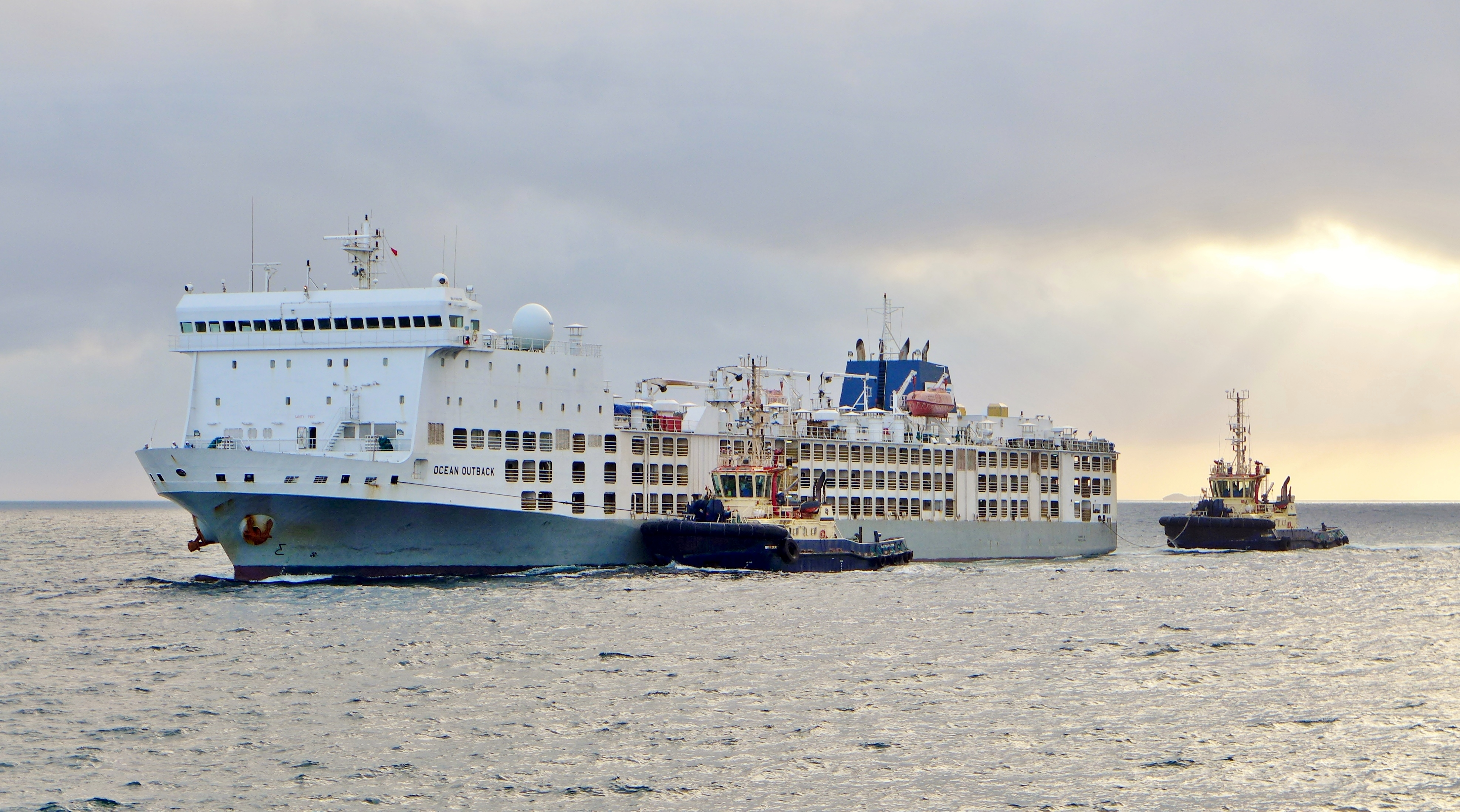 A loaded livestock carrier, Ocean Outback, entering the inner harbour of the Port of Fremantle, Western Australia. She had developed engine trouble about 10 days earlier, after her departure from Fremantle with a cargo of live sheep and cattle bound for Israel. Investigations at Henderson, Cockburn Sound, had later revealed that the faulty engine could not be repaired in Australia. Ocean Outback therefore returned to the inner harbour, where the sheep were unloaded and sent to a pre-export quarantined feedlot. The cattle were then redirected to Vietnam.